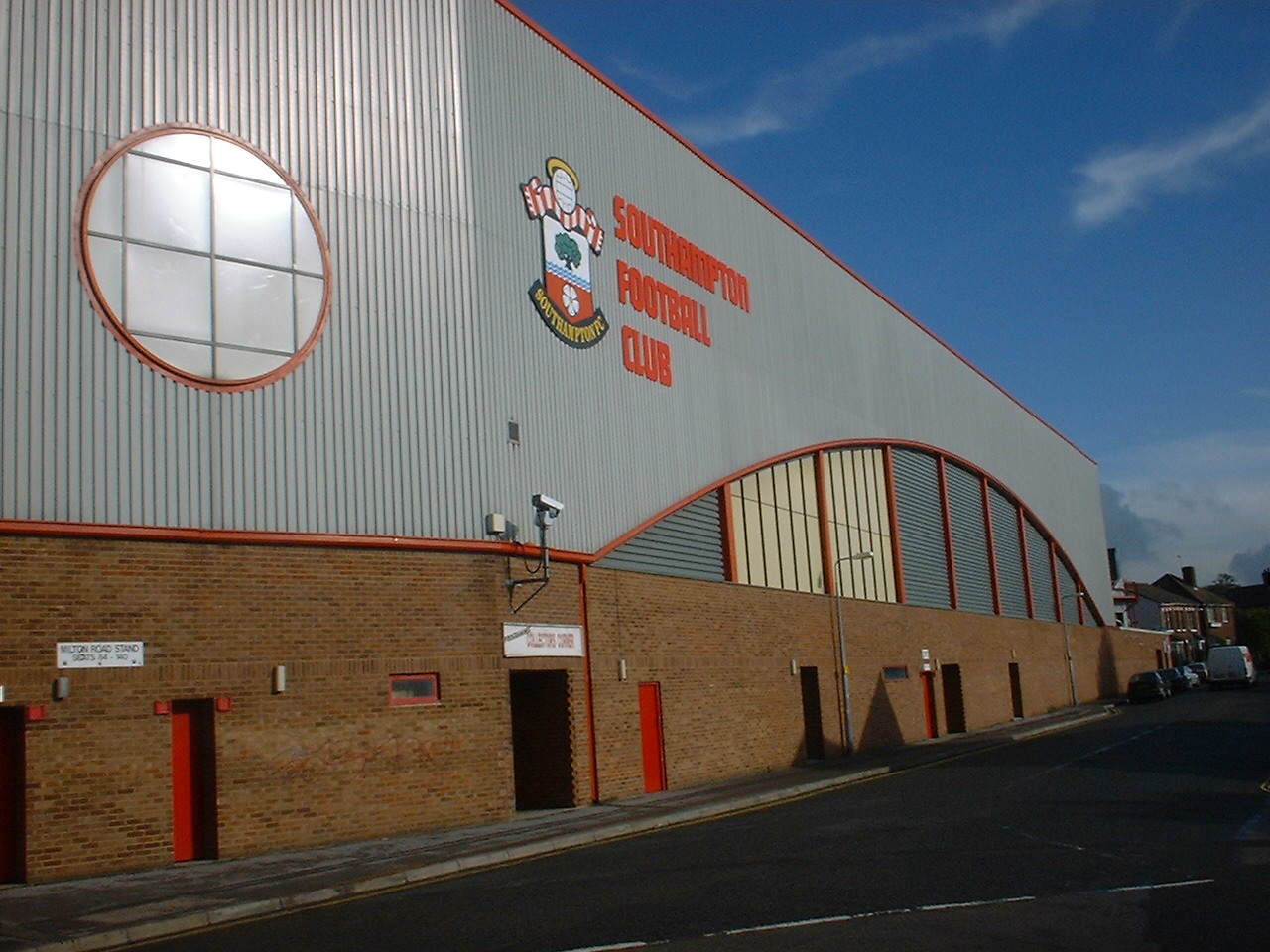 Photo and editing by Dan Kerins. Milton Road End, 2000.